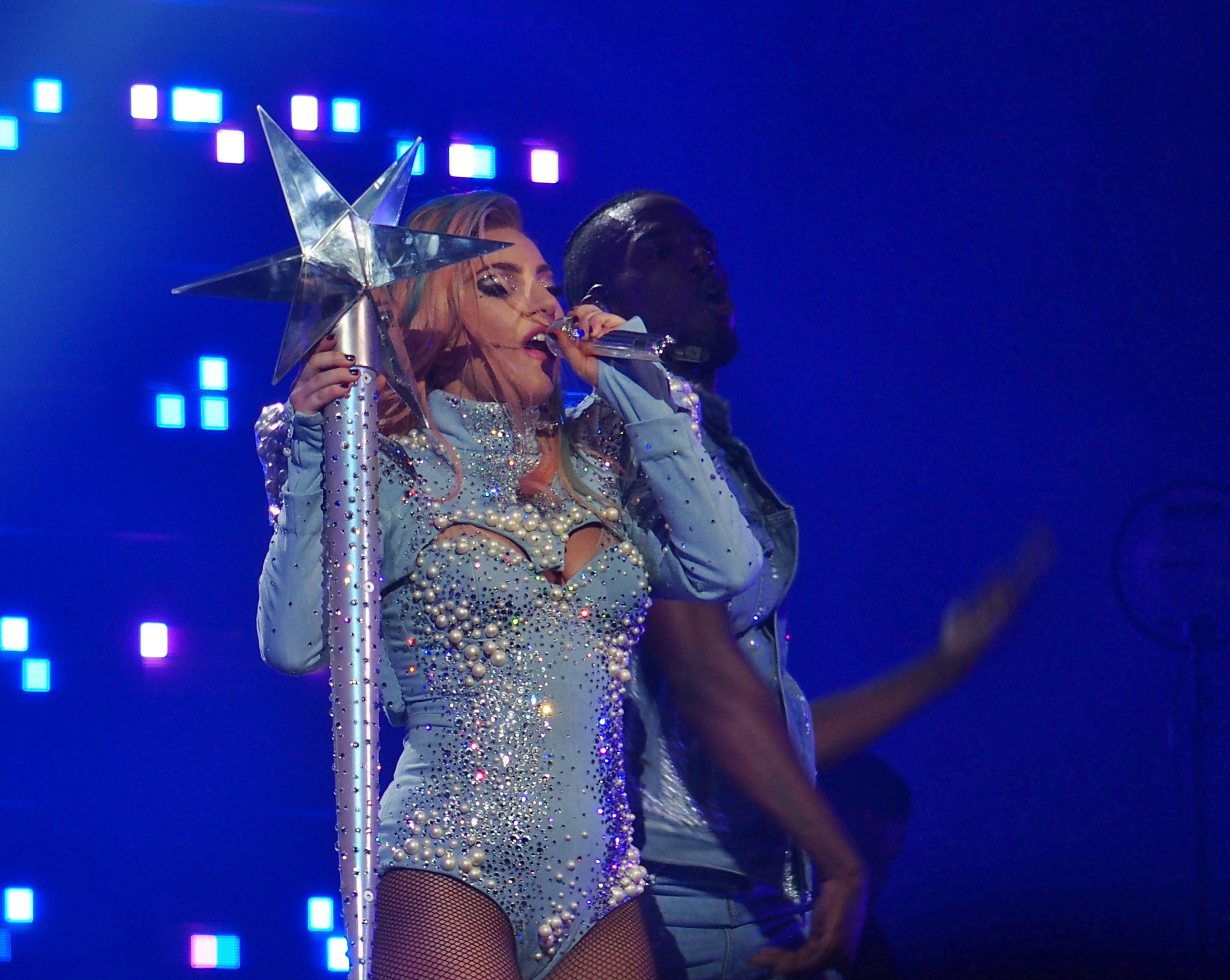 Lady Gaga performing "LoveGame" on the Joanne World Tour